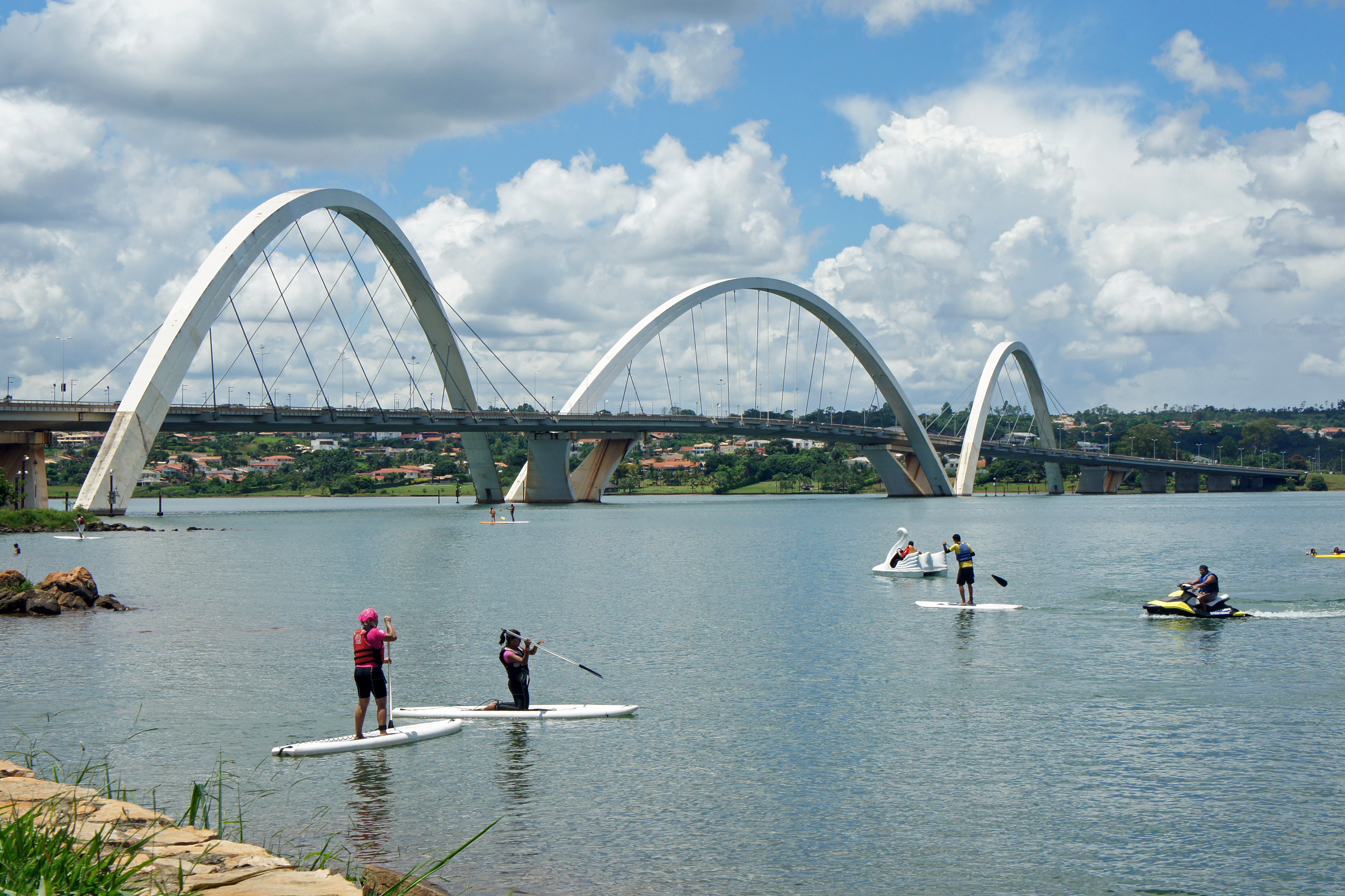 Paddle surfing at Lake Paranoá near Juscelino Kubitschek Bridge, Brasilia, Brazil